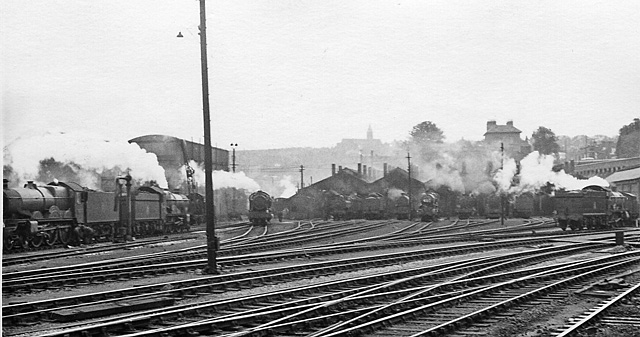 Bristol Bath Road Locomotive Depot. View SE from Temple Meads Station (Platform 12): the classic scene familiar to every railway enthusiast who stopped off at 'The Mead'. This was the principal Depot of the Great Western Bristol Division, coded 82A after Nationalisation: it had an allocation of 93 locomotives in 1950, virtually all devoted to passenger traffic, half of them 4-6-0s, most of the others 2-6-2Ts. (Freight work was handled by St Philip's Marsh just across the river, with 145 locomotives). Bath Road Depot was closed to Steam on 12/9/60 and rebuilt as a Diesel Depot, which lasted until 28/9/95. The photograph features numerous 4-6-0s, the two on the left being readily recognised as 'Castle's. Compare ST5972 : Bristol Bath Road Diesel Locomotive Depot.